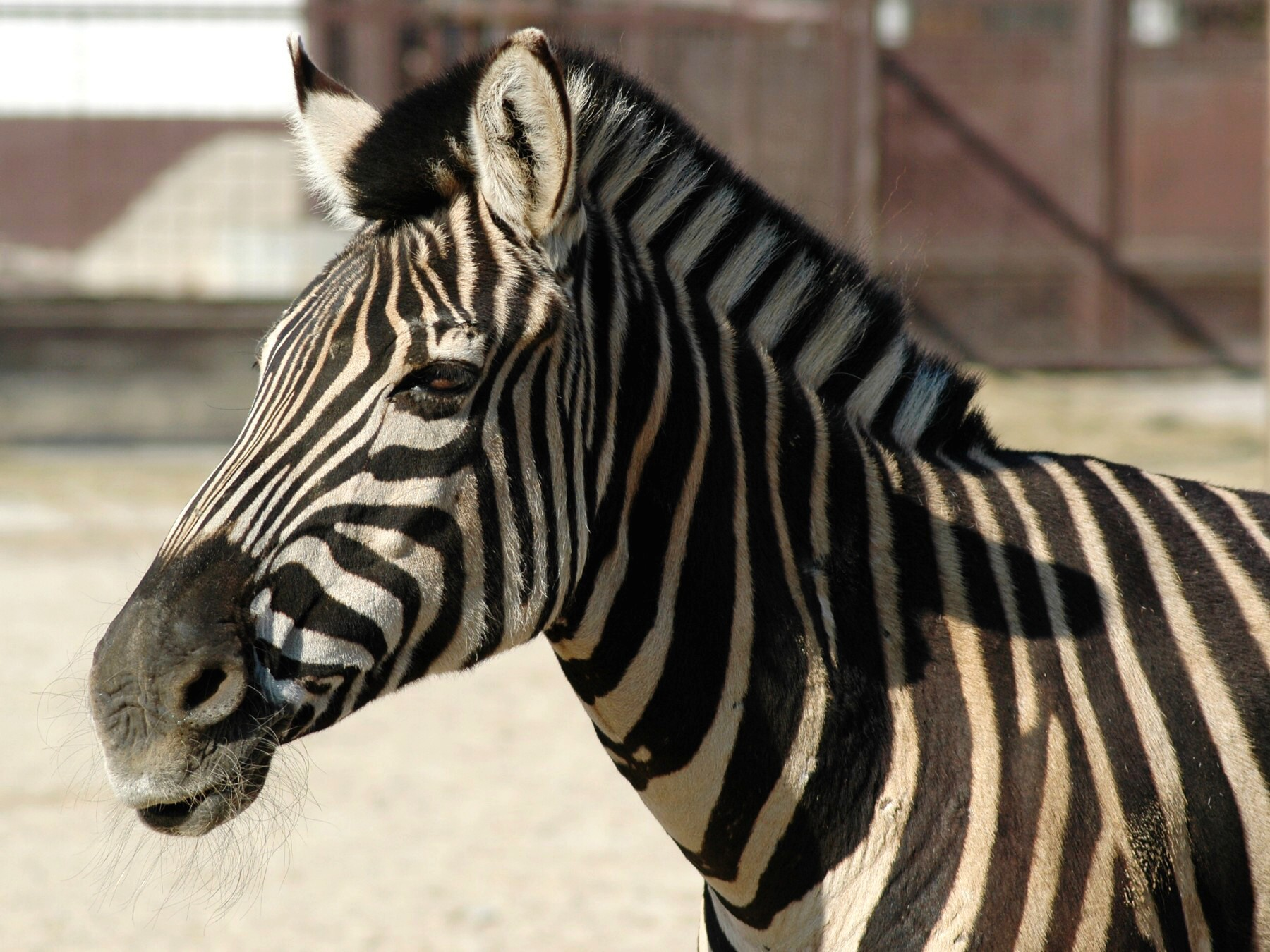 ZOO Bratislava - Zebra Chapman's (Equus burchellii chapmanni)